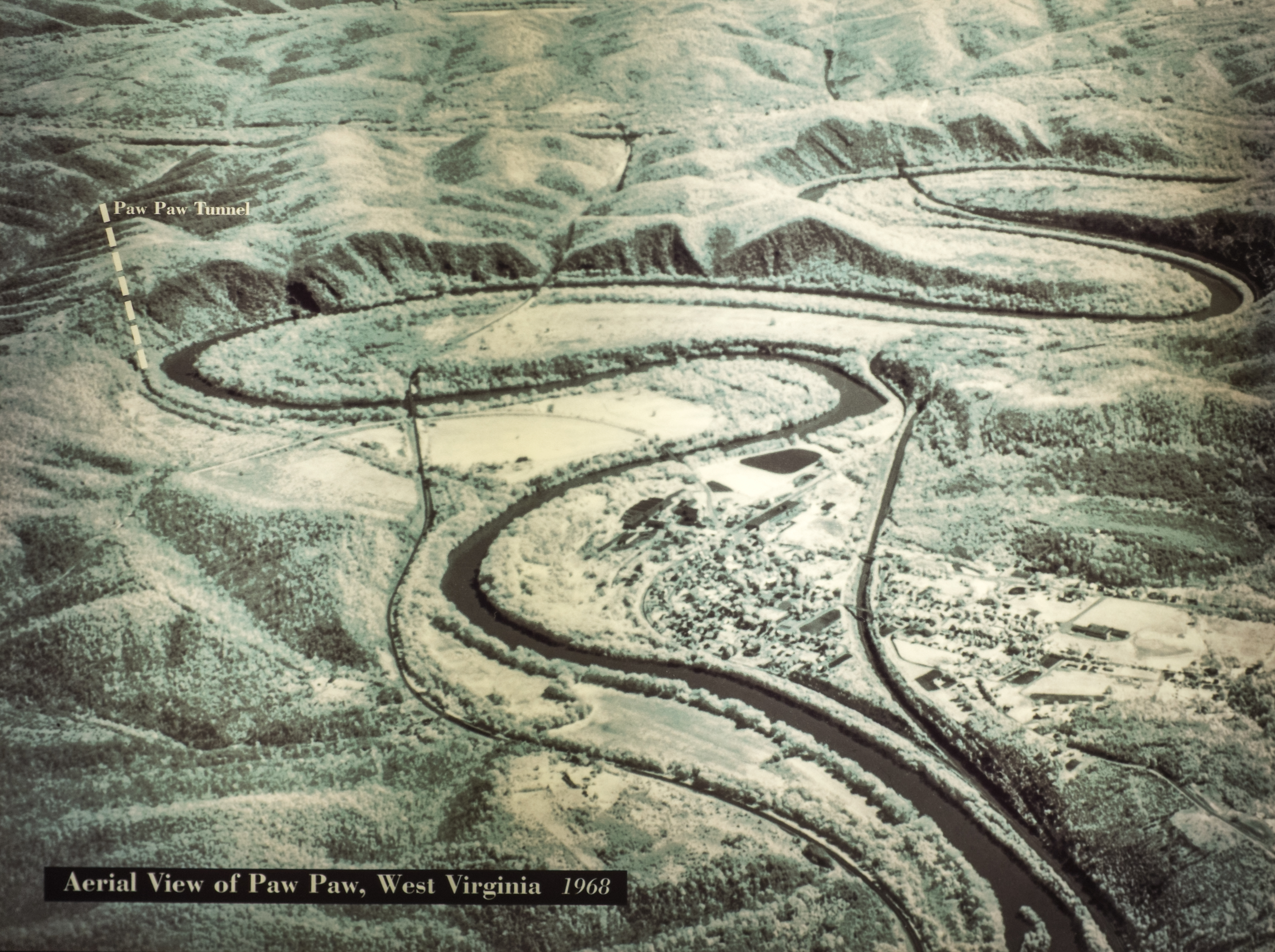 Aerial view of the Paw Paw, West Virginia area, showing location of the Paw Paw Tunnel on the Chesapeake and Ohio Canal. The cliffs on the Maryland side of the Potomac River were the reason that the canal engineers (mainly Charles B Fisk) built the tunnel.